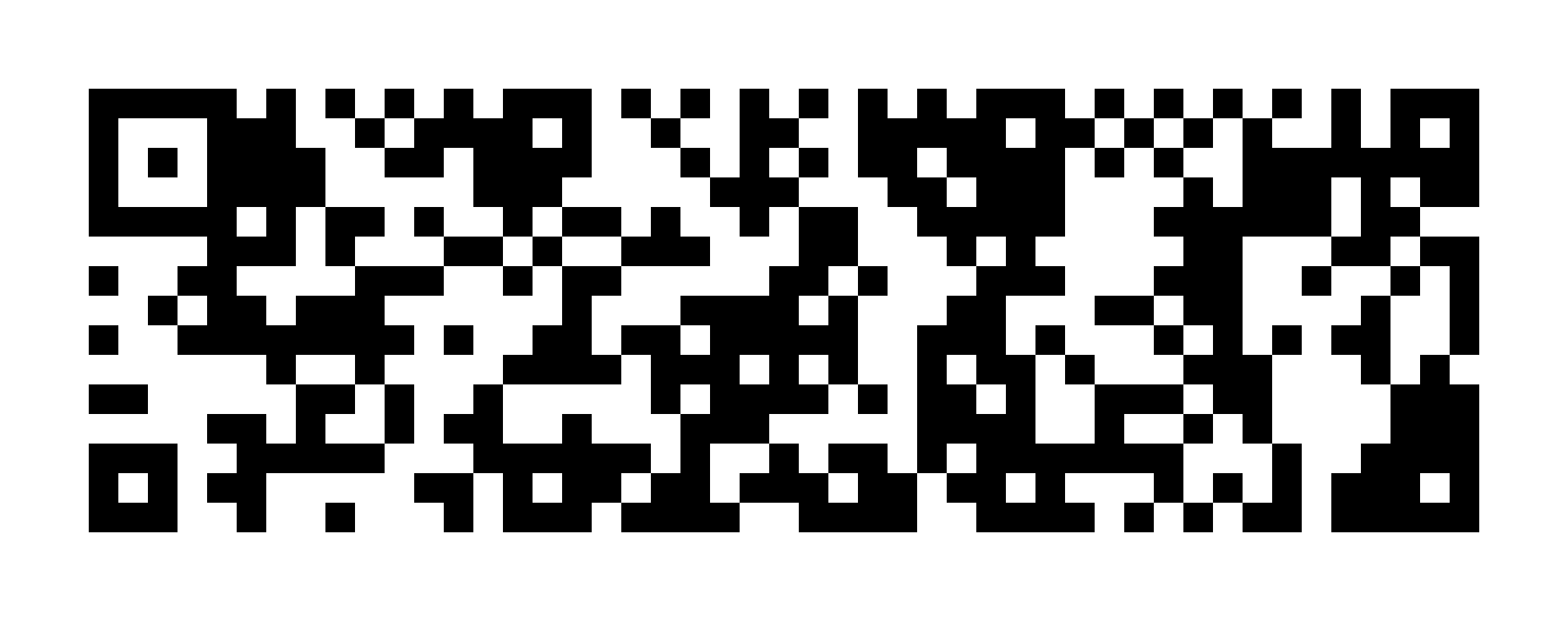 iQR Code. Sample data: "AbcdefghijklmnopqrSTuVwxyzabcdEfghijklmn", ECC Level: "M"